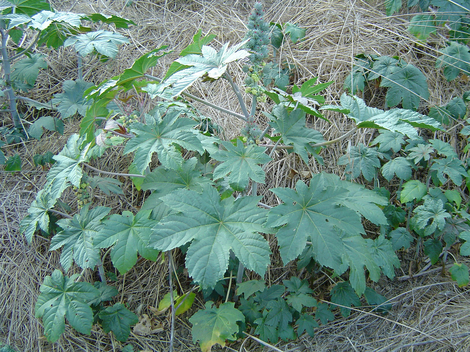 Photographed and uploaded by user:Geographer. Castor Bean in disturbed area in Powder Canyon, Puente Hills, California, July 14, 2005.